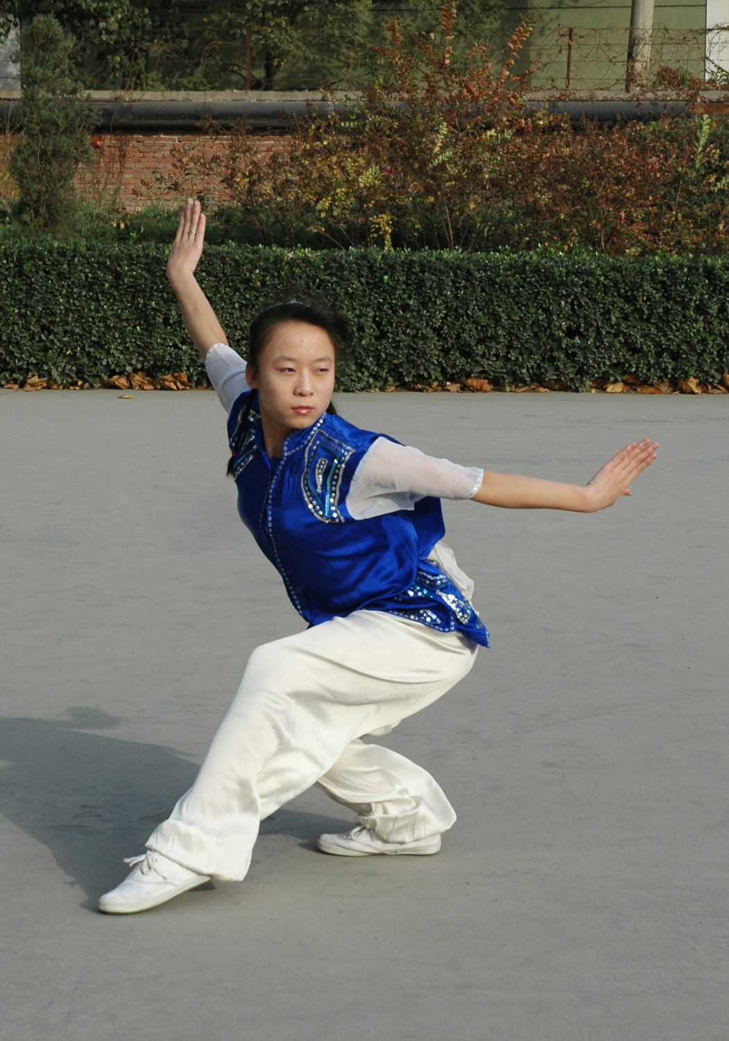 Xubu - He Xijing